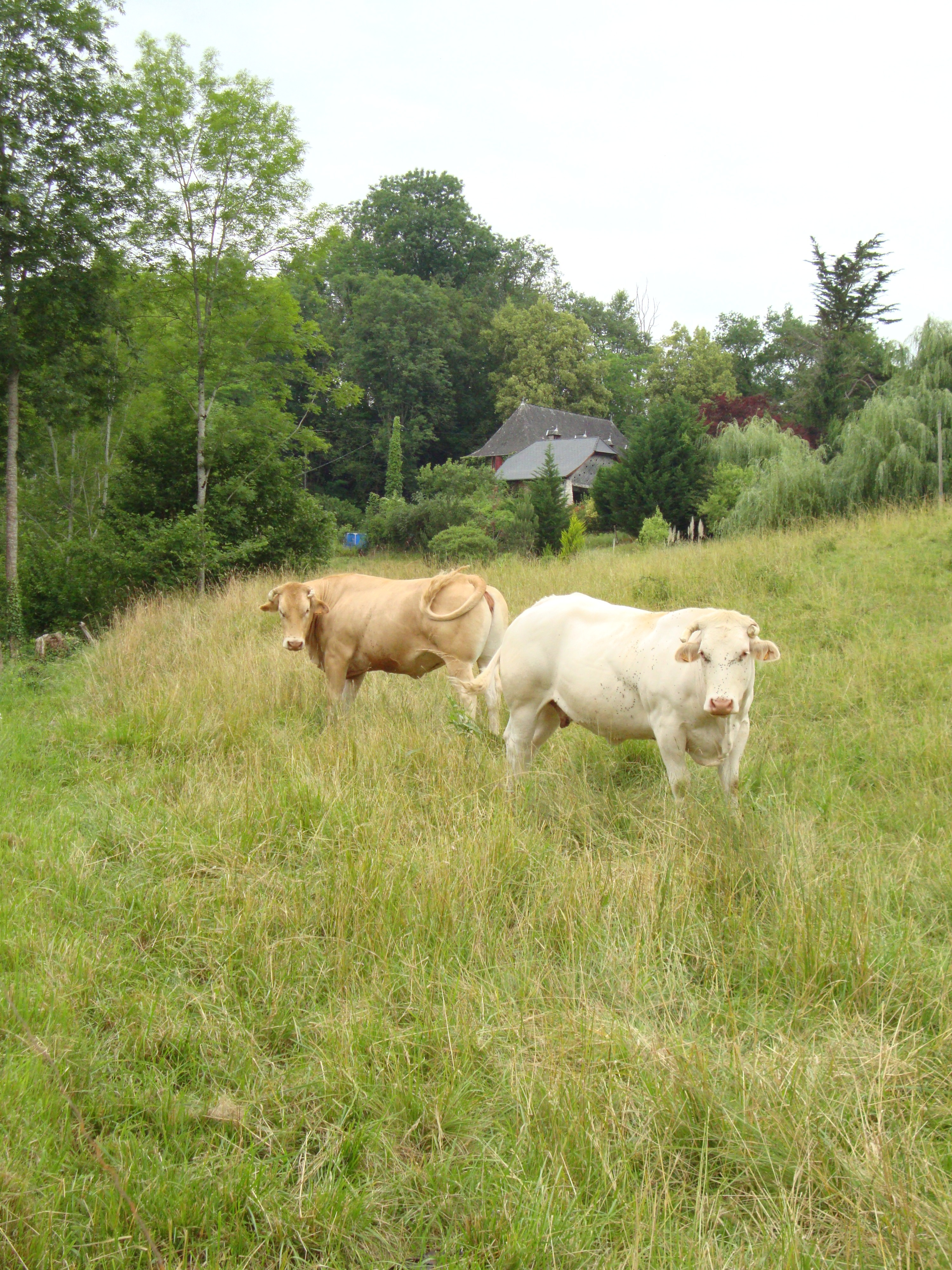 Lasseube (Pyr-Atl, Fr) landscape with cows